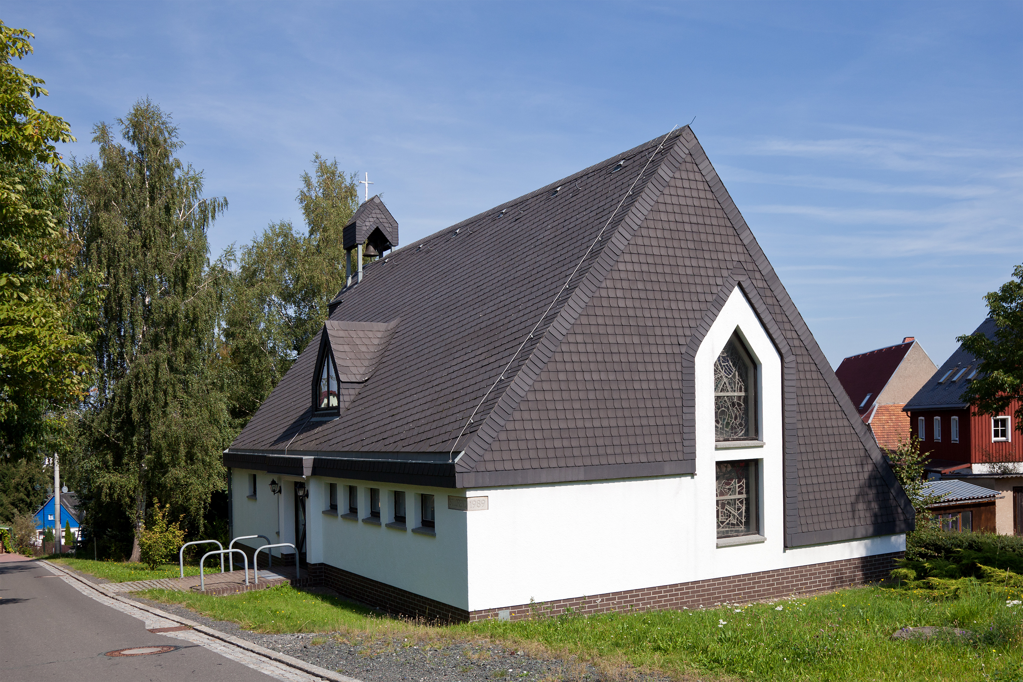 Halsbrücke, Saxony, church "St. Lorenz"